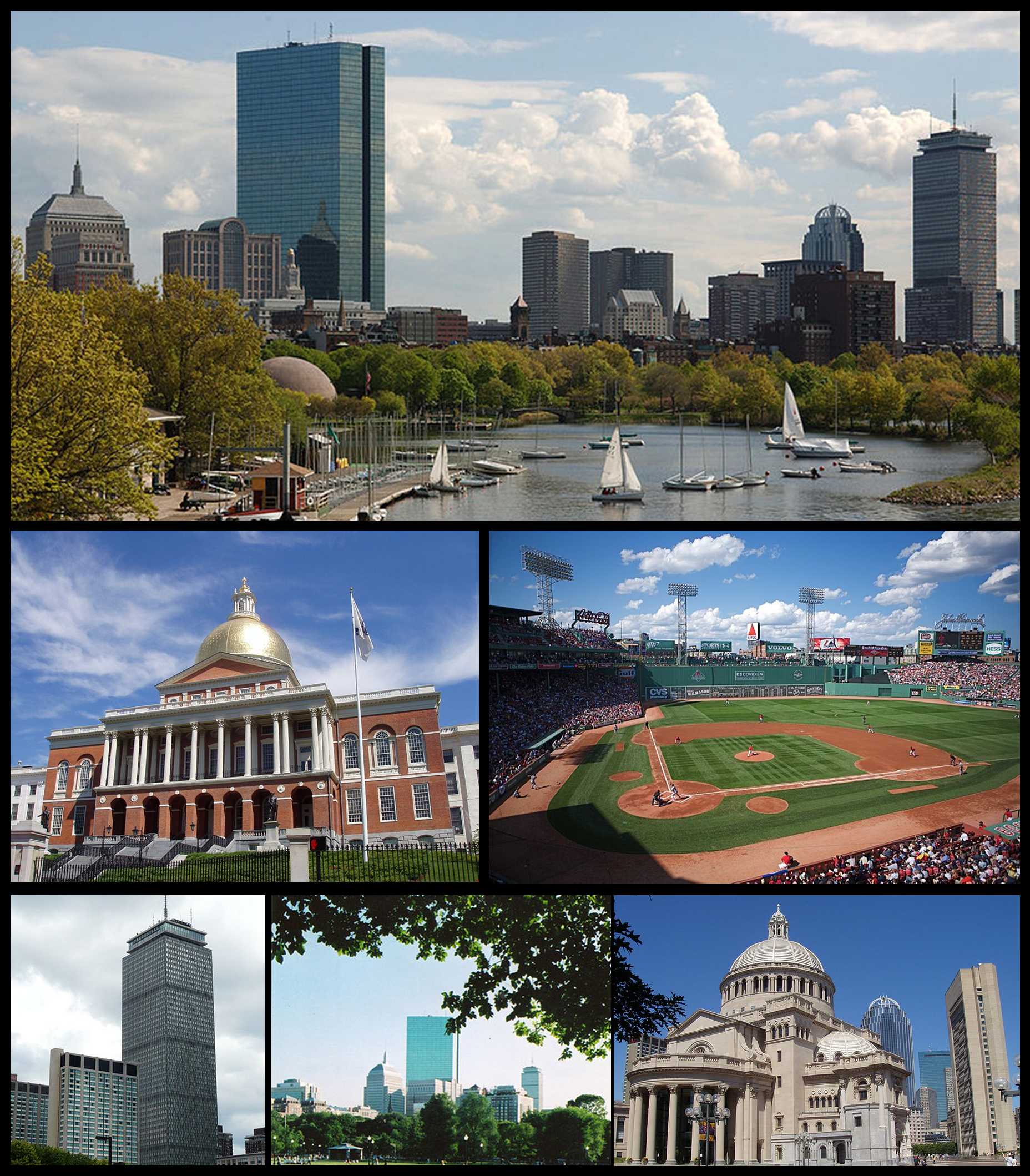 A montage of Boston images, made from multiple existing images: File:Bostonstraight.jpg File:Fenway from Legend's Box.jpg File:Massachusetts State House.jpg File:Boston - buildings 55.JPG File:Boston Financial District skyline.jpg File:ChineseNewYearBoston01.jpg Clockwise: Skyline of Back Bay seen from the Charles River, Fenway Park, Chinese New Year festival in Chinatown, Boston Financial District, Boston Common, Prudential Tower, and Massachusetts State House